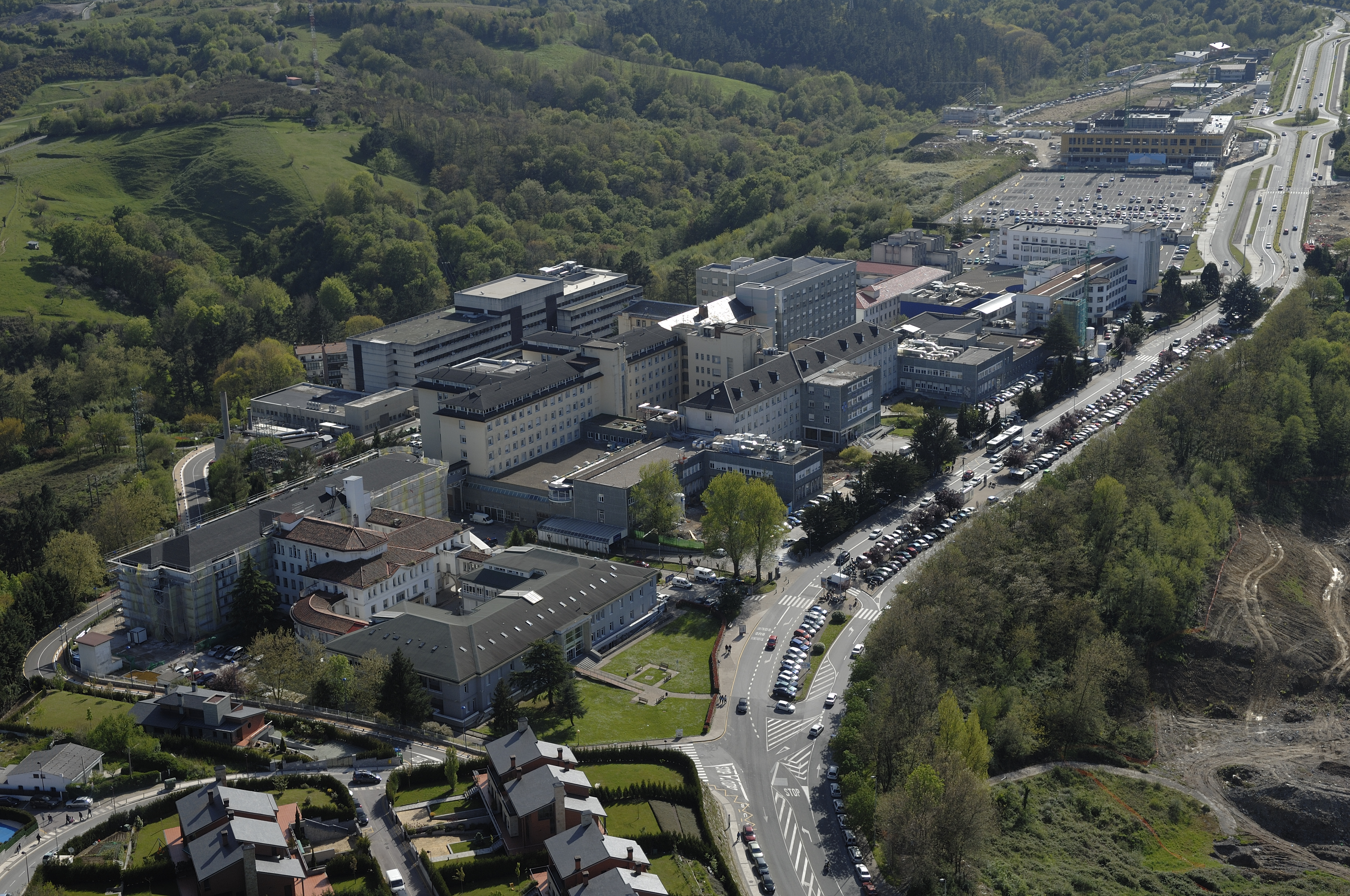 Donostia Hospital. Donostia, Gipuzkoa, Basque Country.